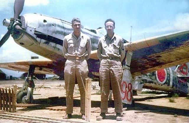 Ex-23 Sentai Ki-61